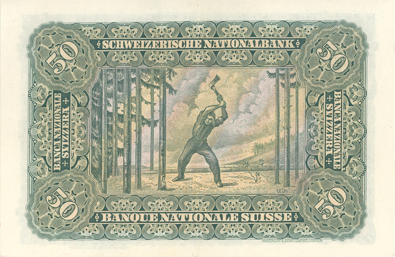 Back of the 50 Swiss Francs banknote, part of series 2 of Swiss banknotes. for more information.